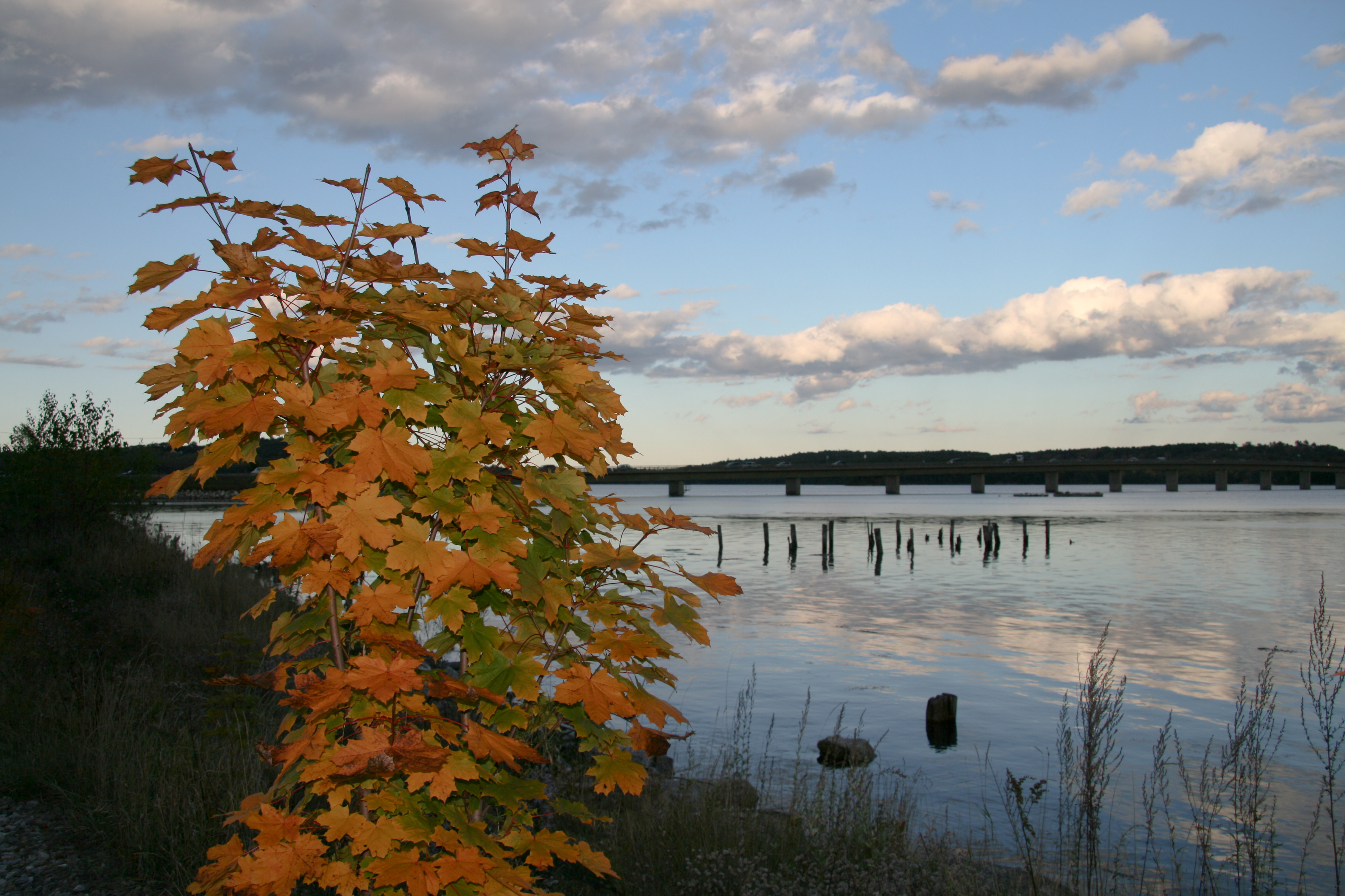 Walking along the river in Wiscasset. Weekend trip to Maine for a friend's wedding, October 2009.